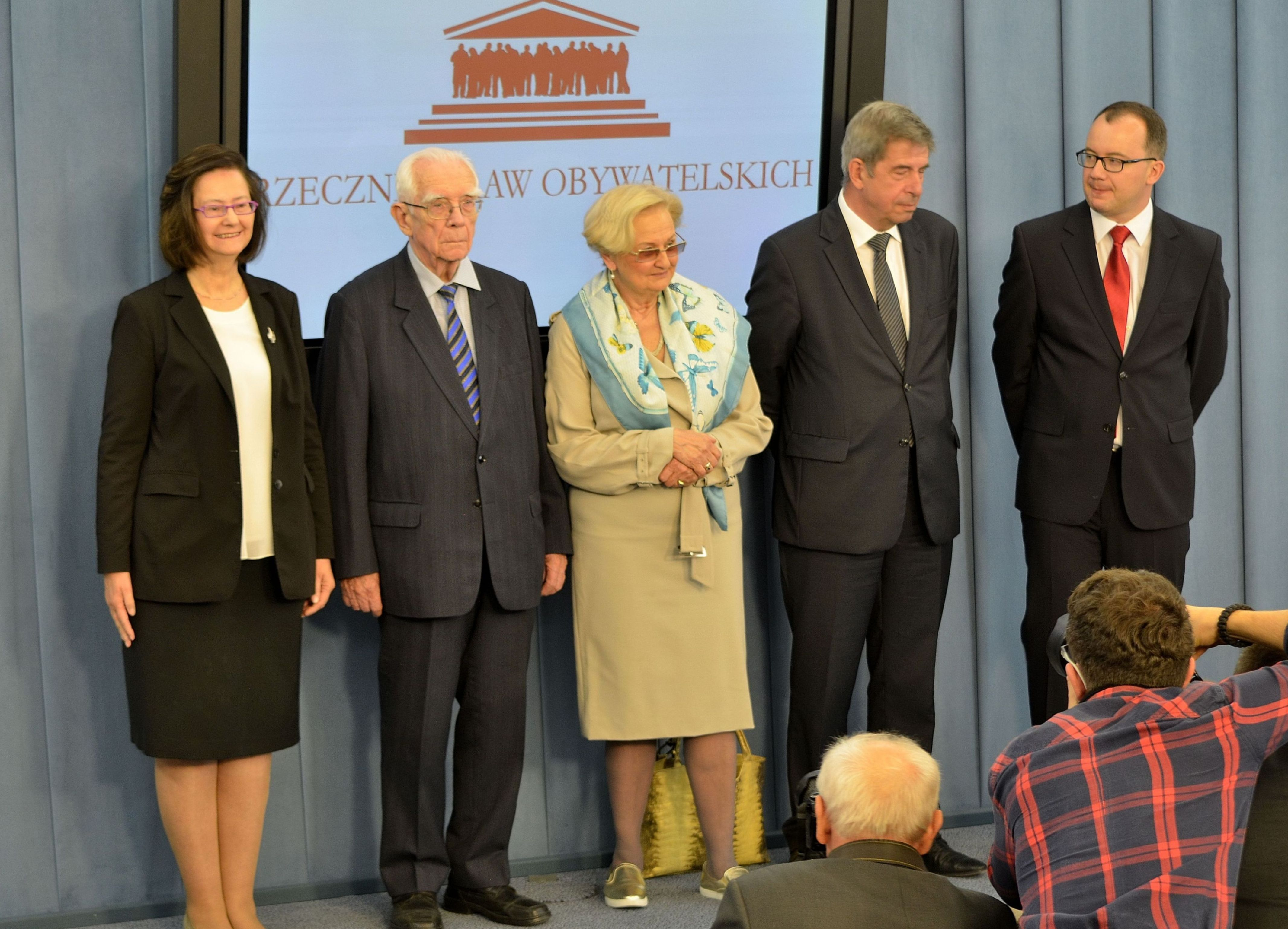 Irena Lipowicz, Adam Zieliński, Ewa Łętowska, Andrzej Zoll and Adam Bodnar in the Sejm